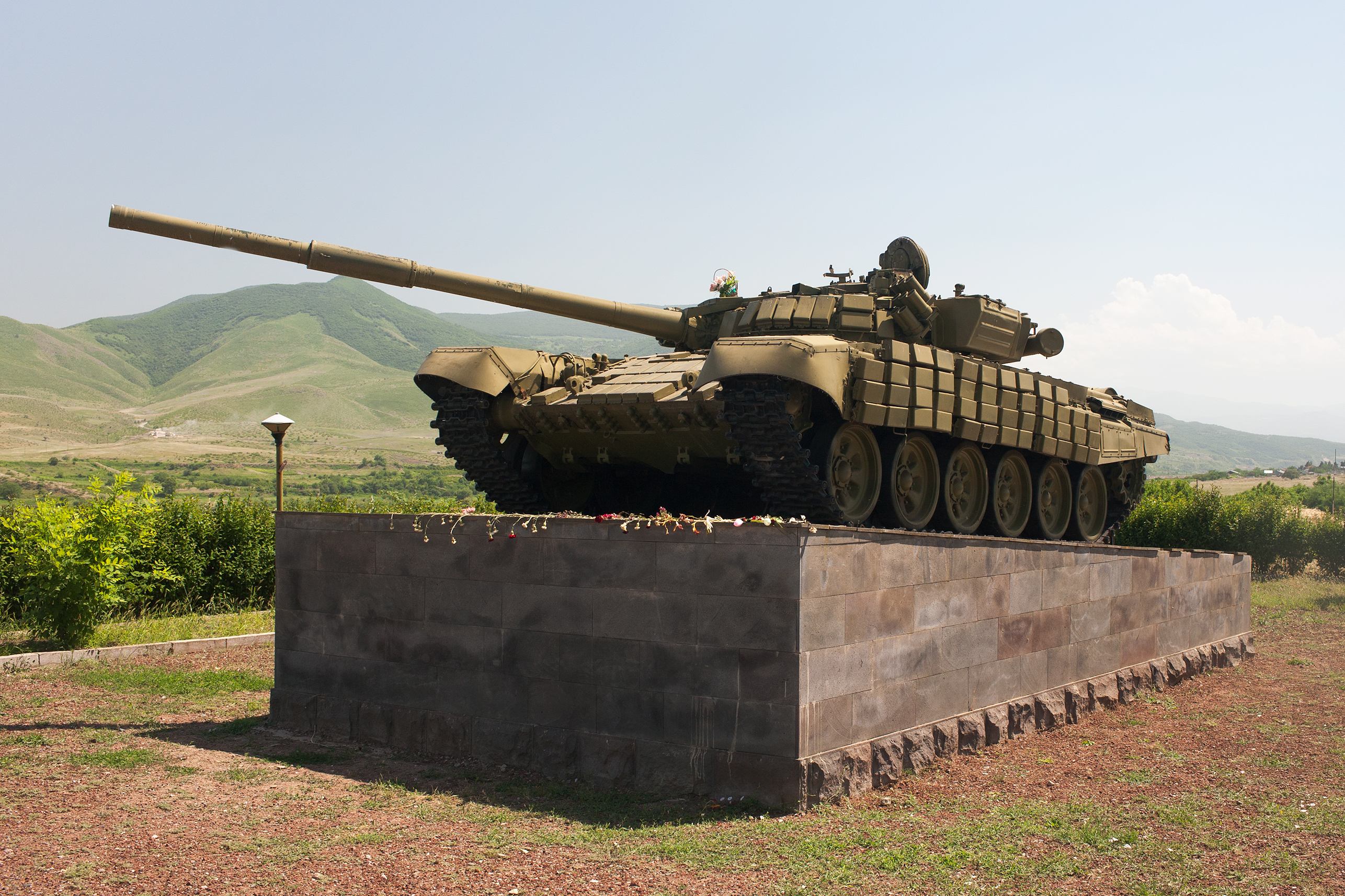 T-72 at the Askeran Tank Memorial near Stepanakert in Nagorno-Karabakh.